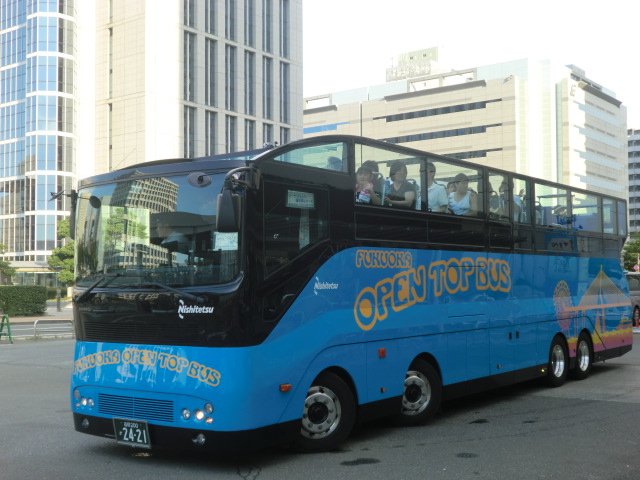 Fukuoka Open Top Bus operated by Nishi-Nippon Railroad in Fukuoka City, Japan